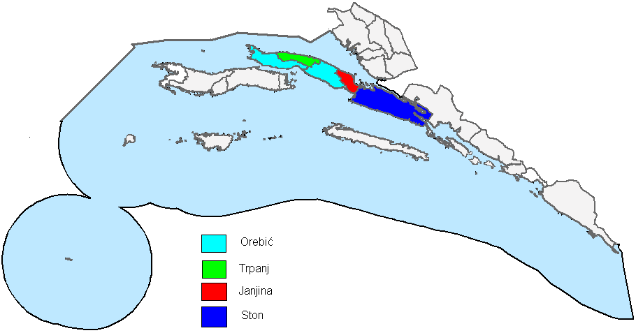 map of Pelješac administrative dvision by municipalities Category:Croatia county maps